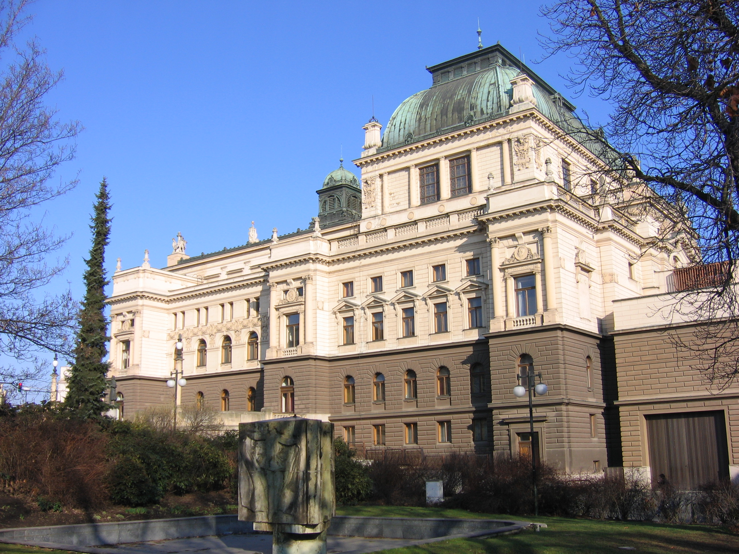 City of Plzeň, Czech Republic. Pilsen, Tschechien.